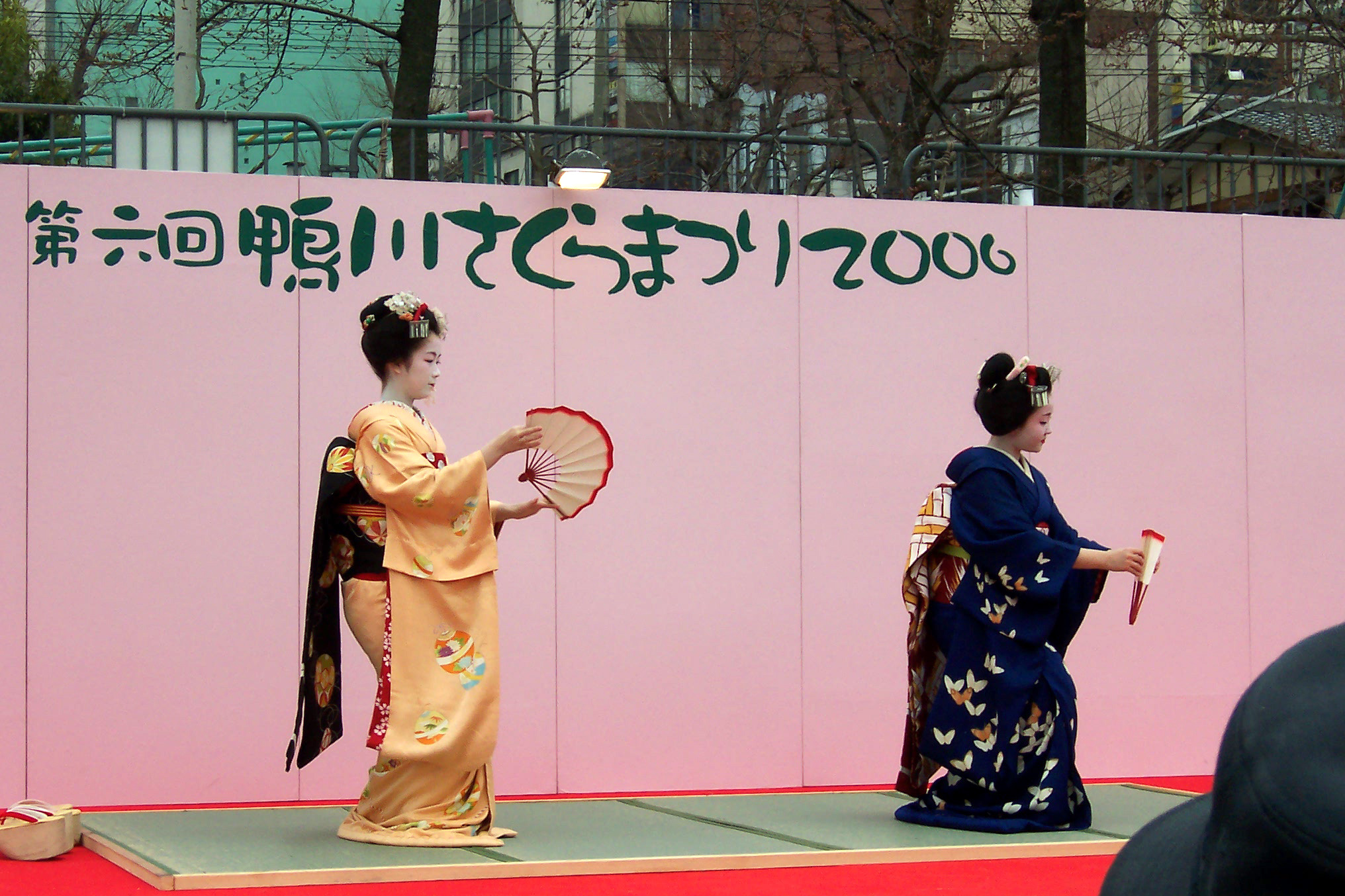 Two maiko, Kanoaki (in yellow) and Sonoka (in blue), performing a dance during the Kamogawa matsuri